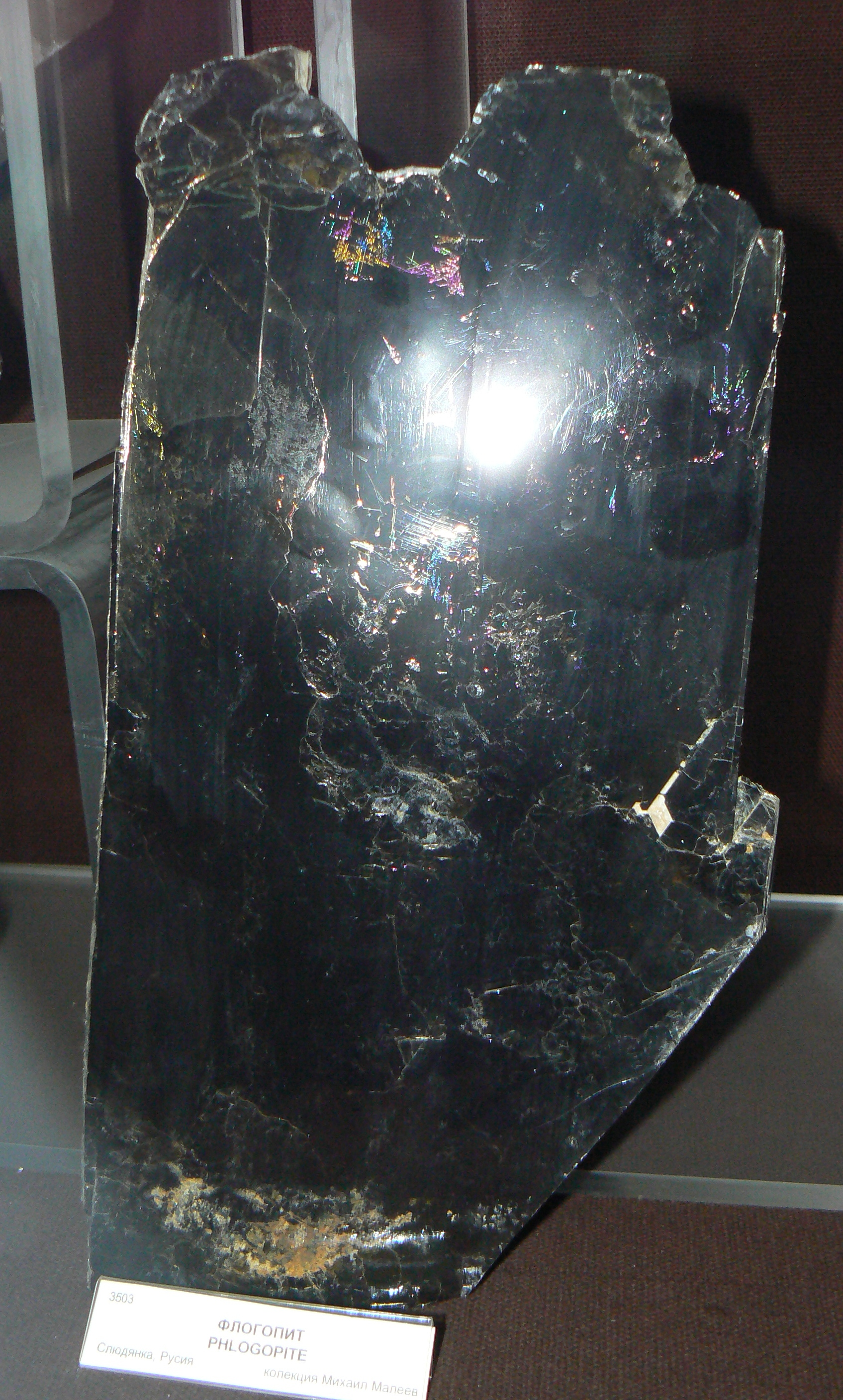 Piece of the mineral phlogopite. Discovered in Slyudyanka, Russia. Exhibit of the "Earth and Man" Museum in Sofia, Bulgaria.